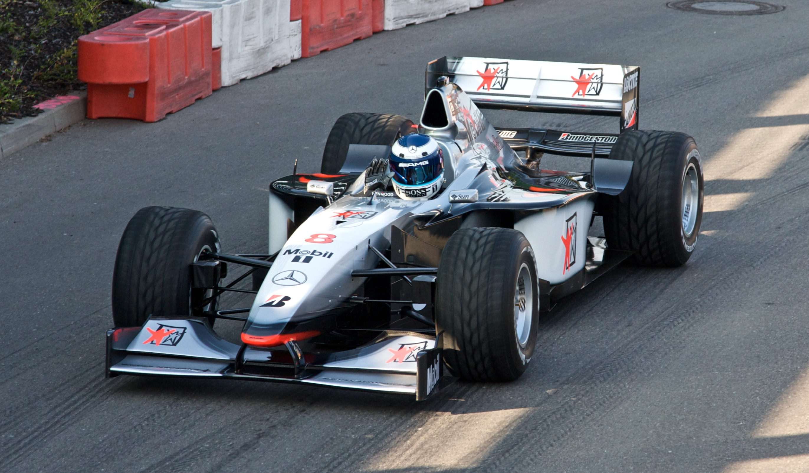 Mika Häkkinen demonstarting his 1998 championship-winning McLaren MP4/13 at the Mercedes-Benz Stars and Cars event, November 2008.